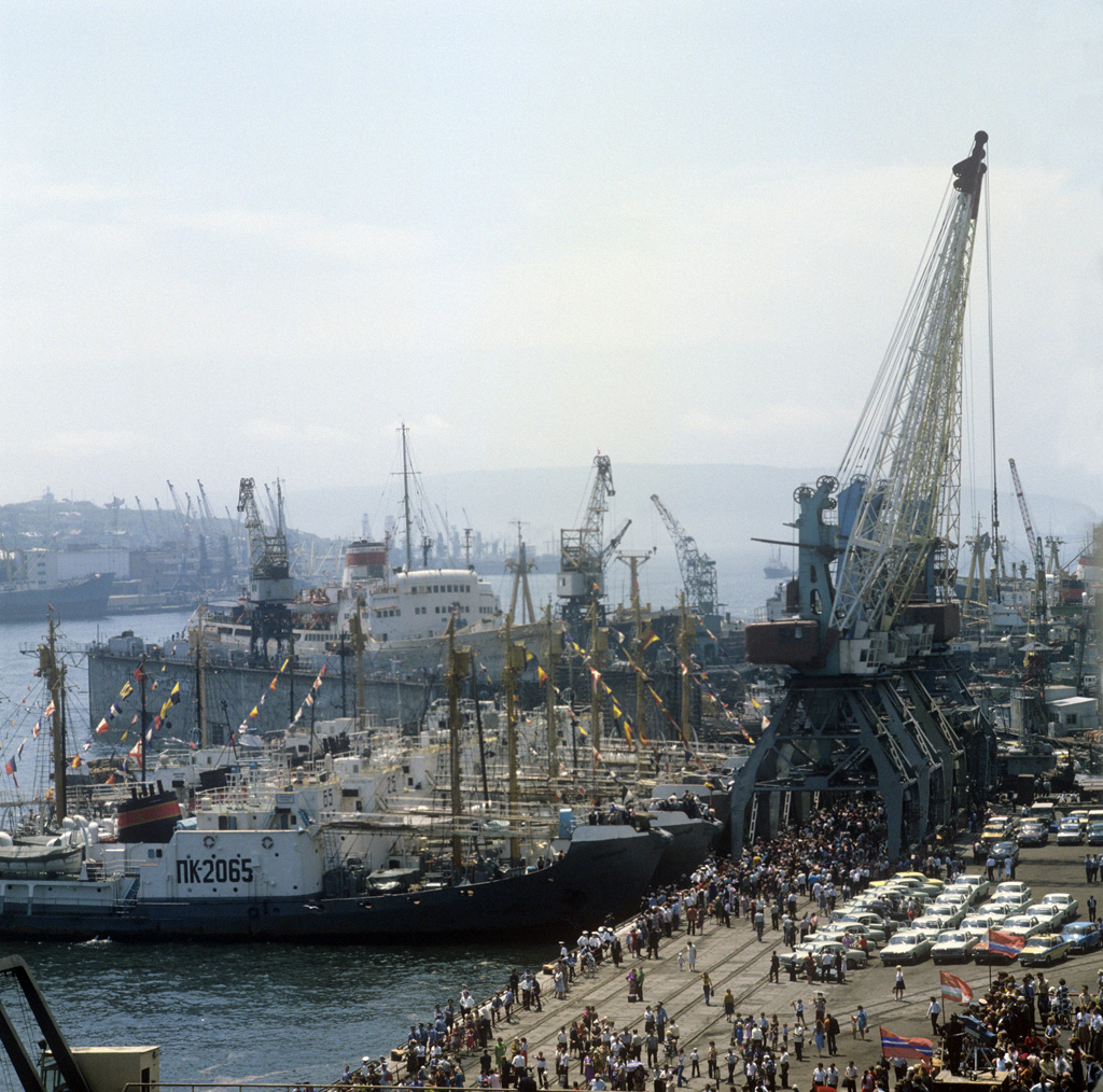 “Vladivostok commercial seaport”. The "Soviet Russia" Antarctic whaling flotilla welcomed at the Vladivostok commercial seaport, Maritime Territory. 1980.